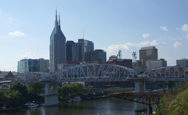 Nashville skyline